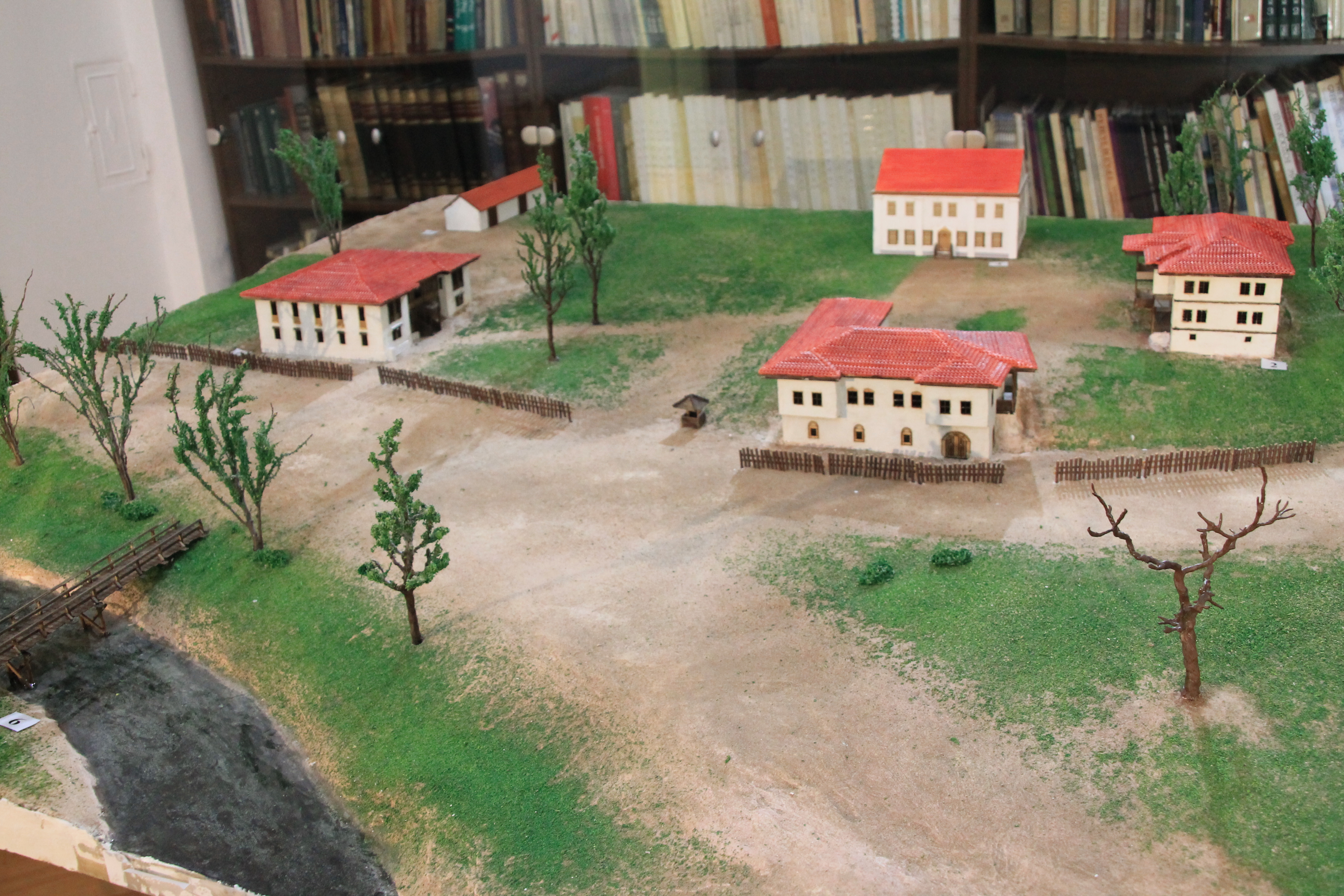 National Museum of Kragujevac